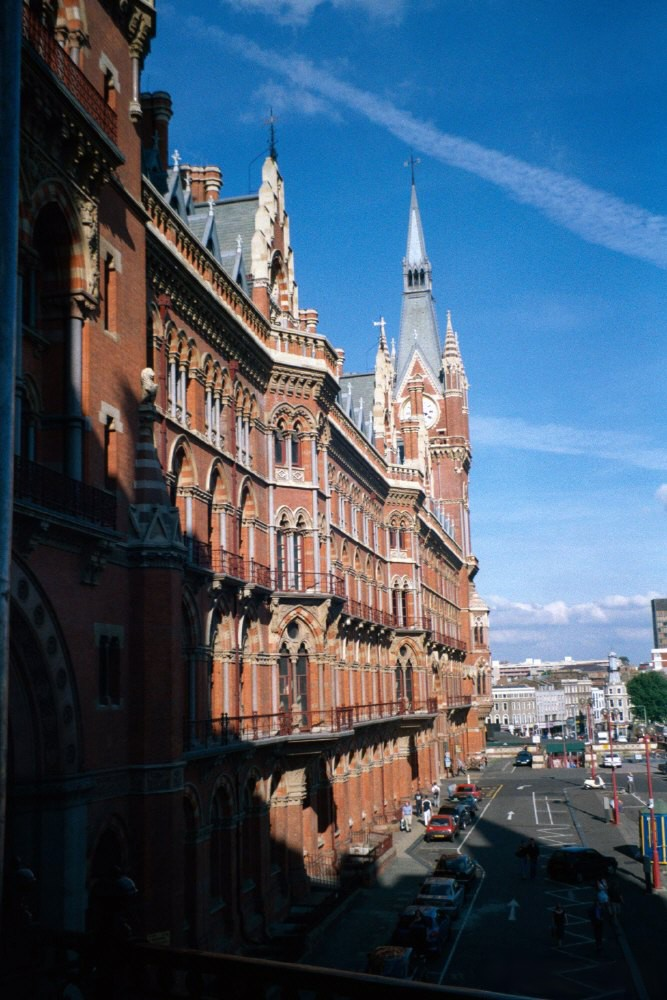 The former Midland Grand Hotel at the front of St Pancras train station.